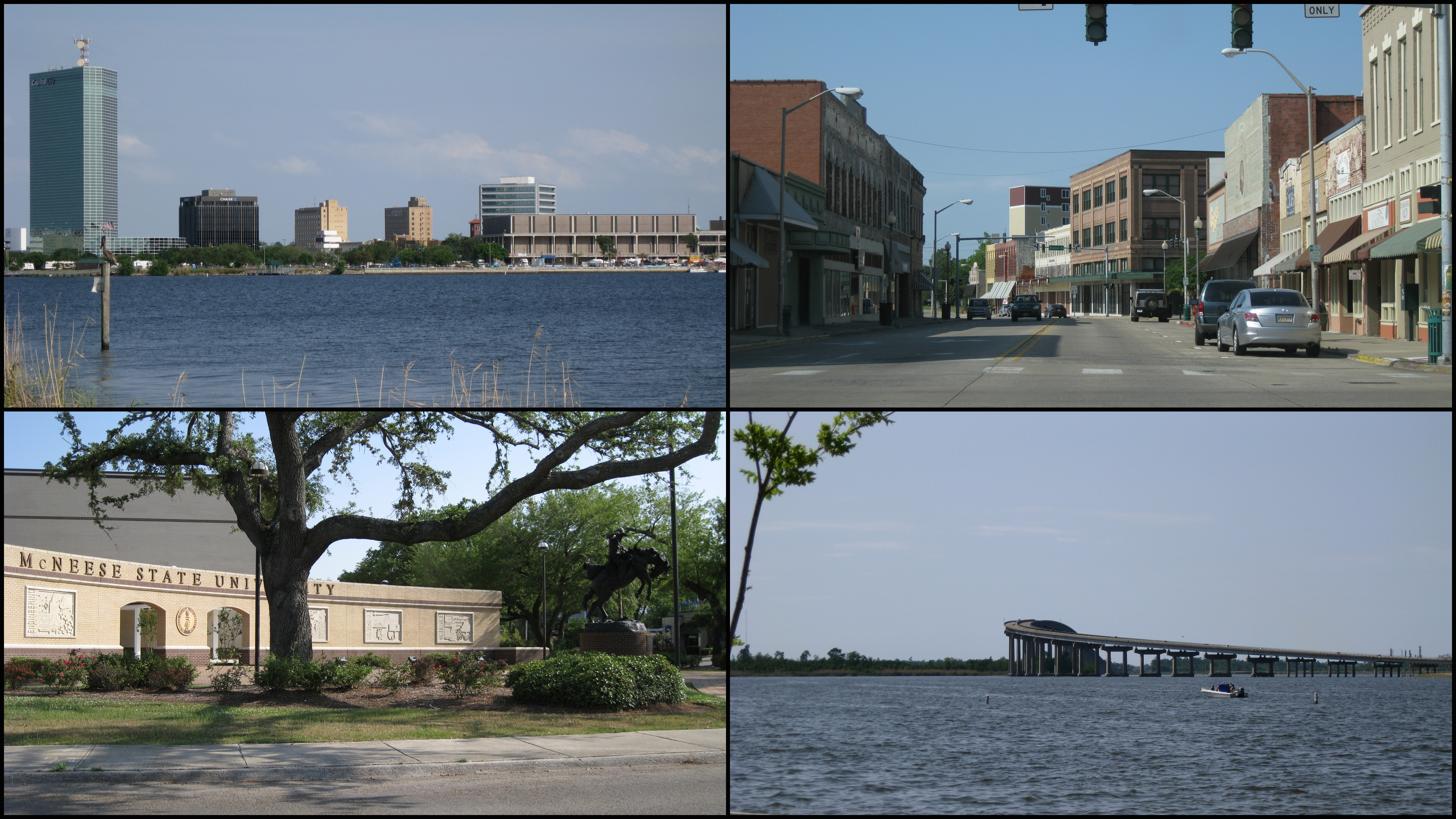 Clockwise from left: Downtown Lake Charles from North Beach; Downtown Lake Charles along Ryan Street; I-210 Bridge over the Calcasieu River; McNeese State University entrance plaza.